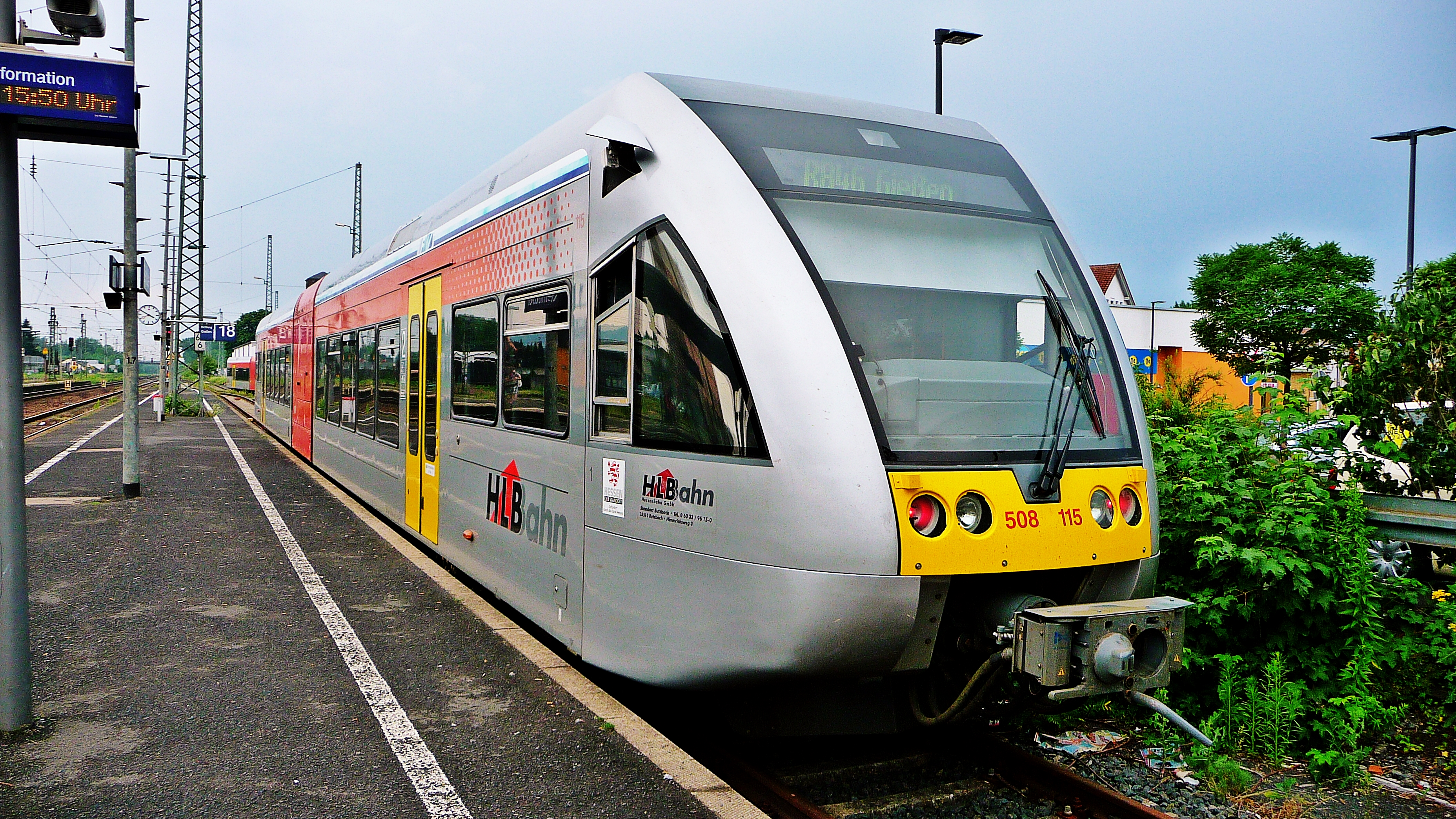 DMU of the HLB as RB 46 from Gelnhausen to Giessen via the Giessen–Gelnhausen railway.